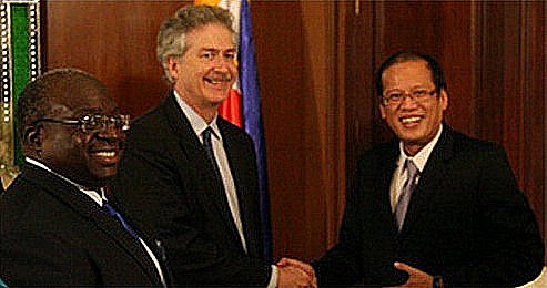 Under Secretary of state for Political Affairs William J. Burns (middle) shakes hands with Republic of the Philippines President Benigno Aquino (right) as U.S. Ambassador to the Philippines Harry K. Thomas, Jr. (left) looks on. Under Secretary Burns visited Malacanang Palace to meet with President Aquino and convey the United States congratulations. The meeting with President Aquino and top cabinet members focused on strengthening the U.S. – Philippine relationship and cooperation. Under Secretary Burns emphasized the U.S. is ready to partner with the Philippines to “meet the challenges and seize the opportunities of the 21st century.”